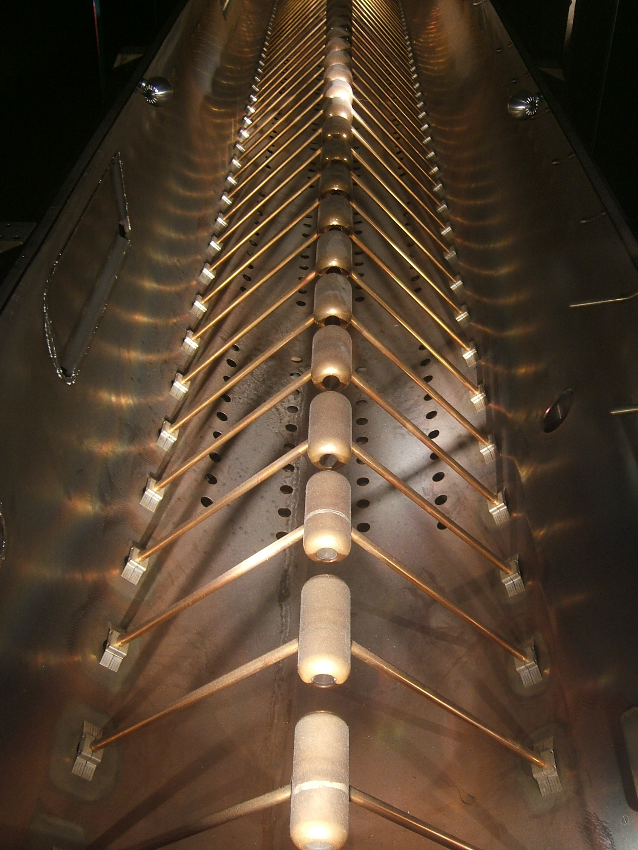 One of the first cern accelerators - a very short Linac1, now in the exhibition area.CERN Nov 2006 019